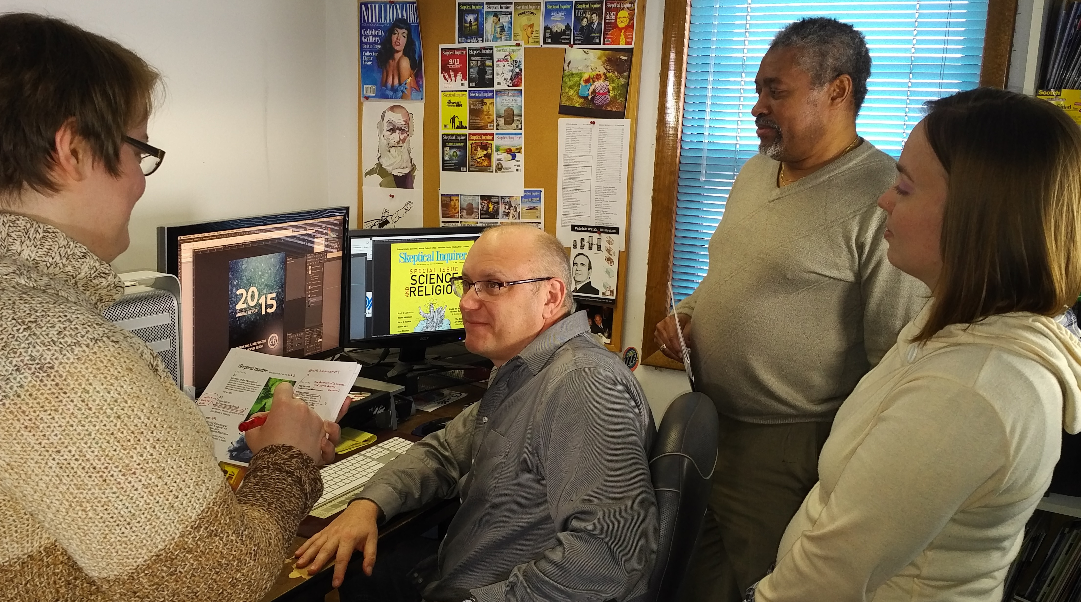 From left:Julia Lavarnway, Chris Fix, Paul Loynes, and Nicole Scott, in the Skeptical Inquirer Art Department Office.